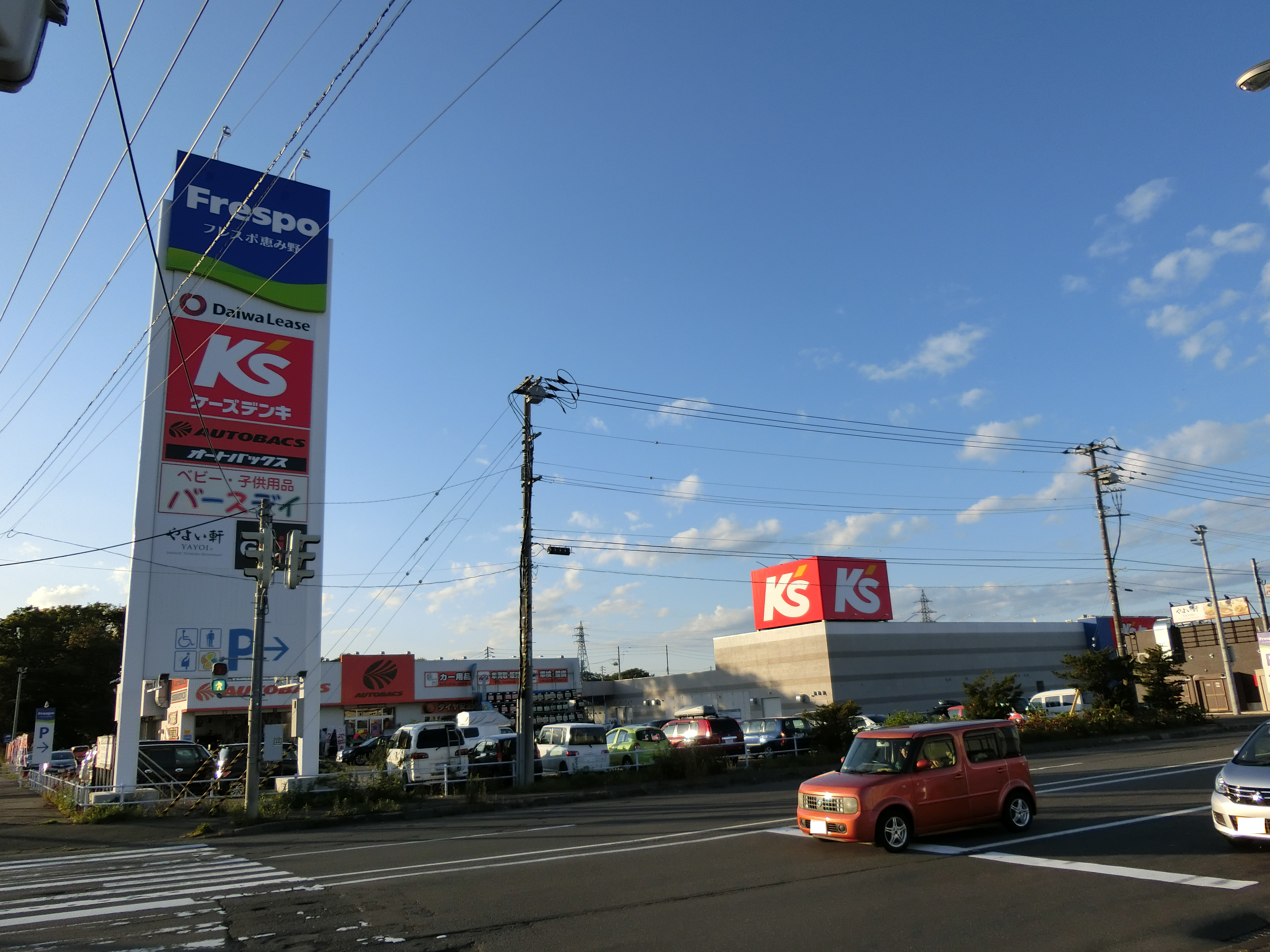 South Area of Frespo Megumino located in Megumino-Satomi (near Megumino Station) , Eniwa, Hokkaido